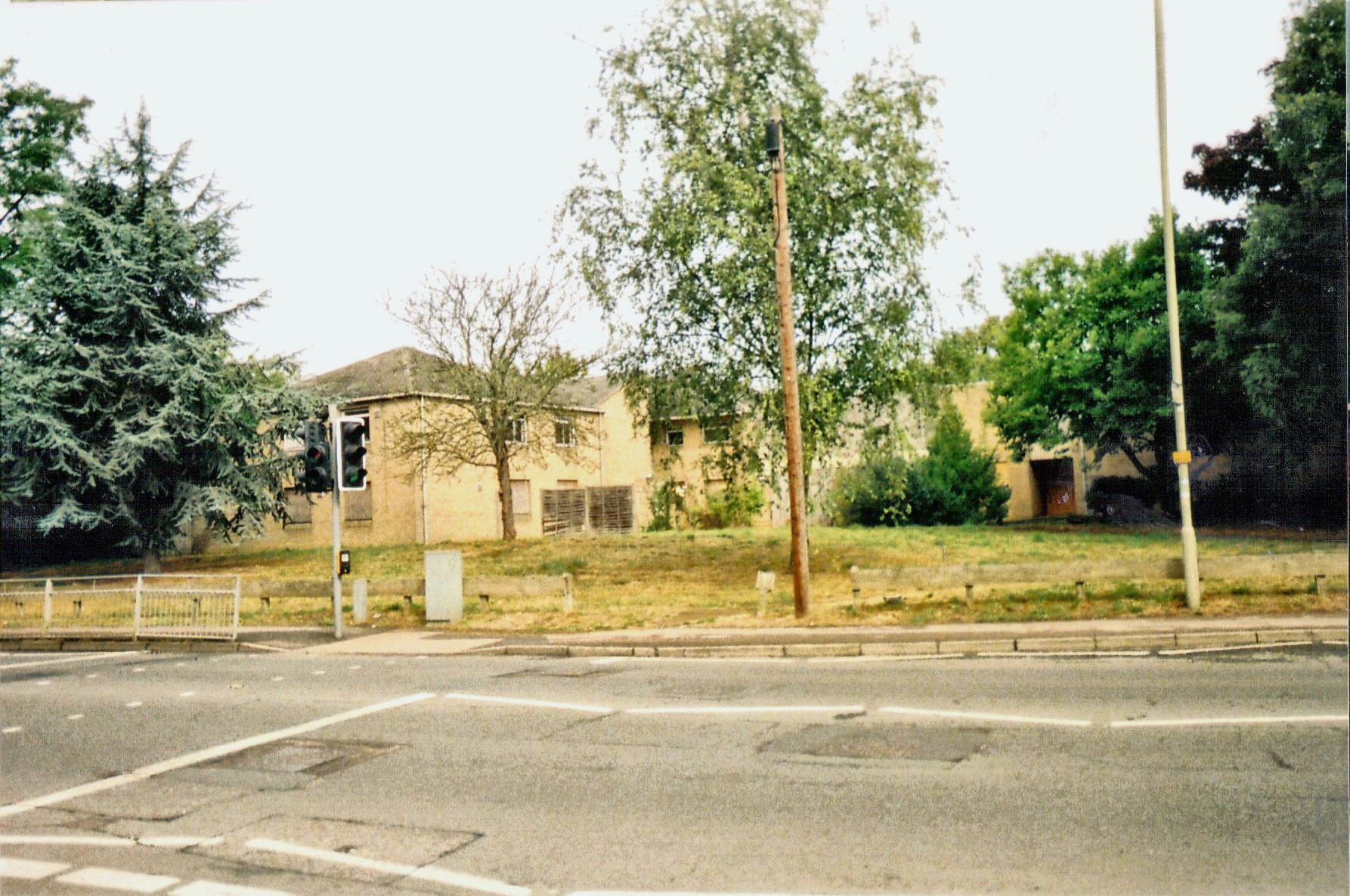 A former 1970s OAP residence home and sheltered housing complex by the police station. It has been deserted since circa 2004.It is slated for redevelopment circa 2012-2013.